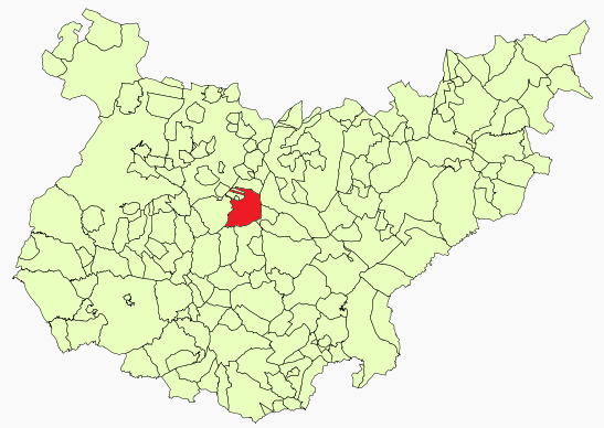 Alange